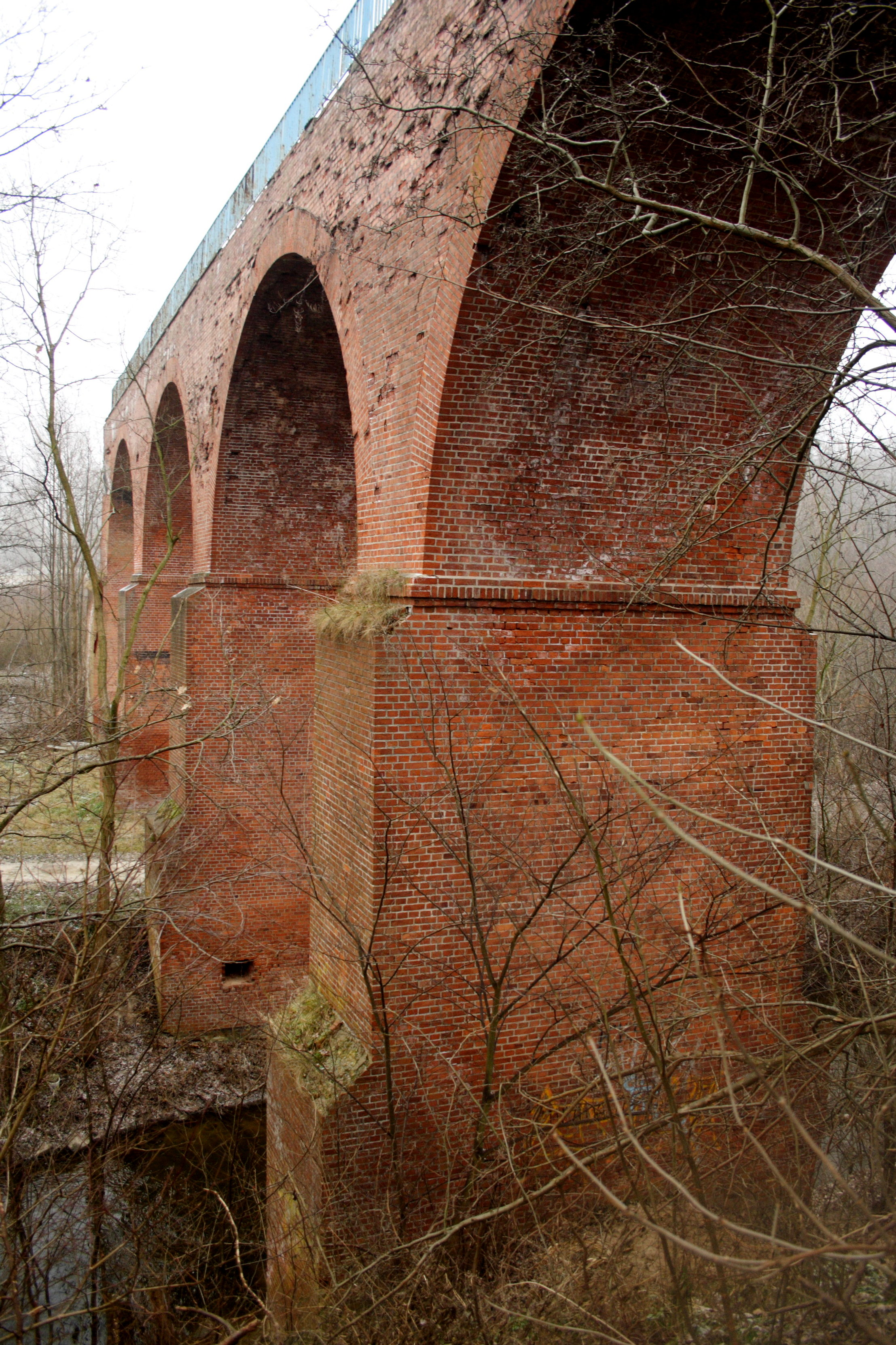 Kwidzyn, bridge over Liwa river on non-existing railway line to Kisielice